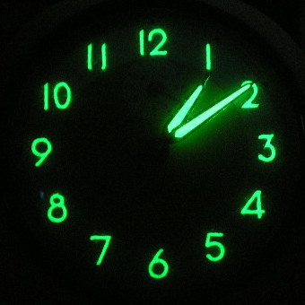 Radioluminescence. A 50's Radium Dial, previously exposed tu UV-A light